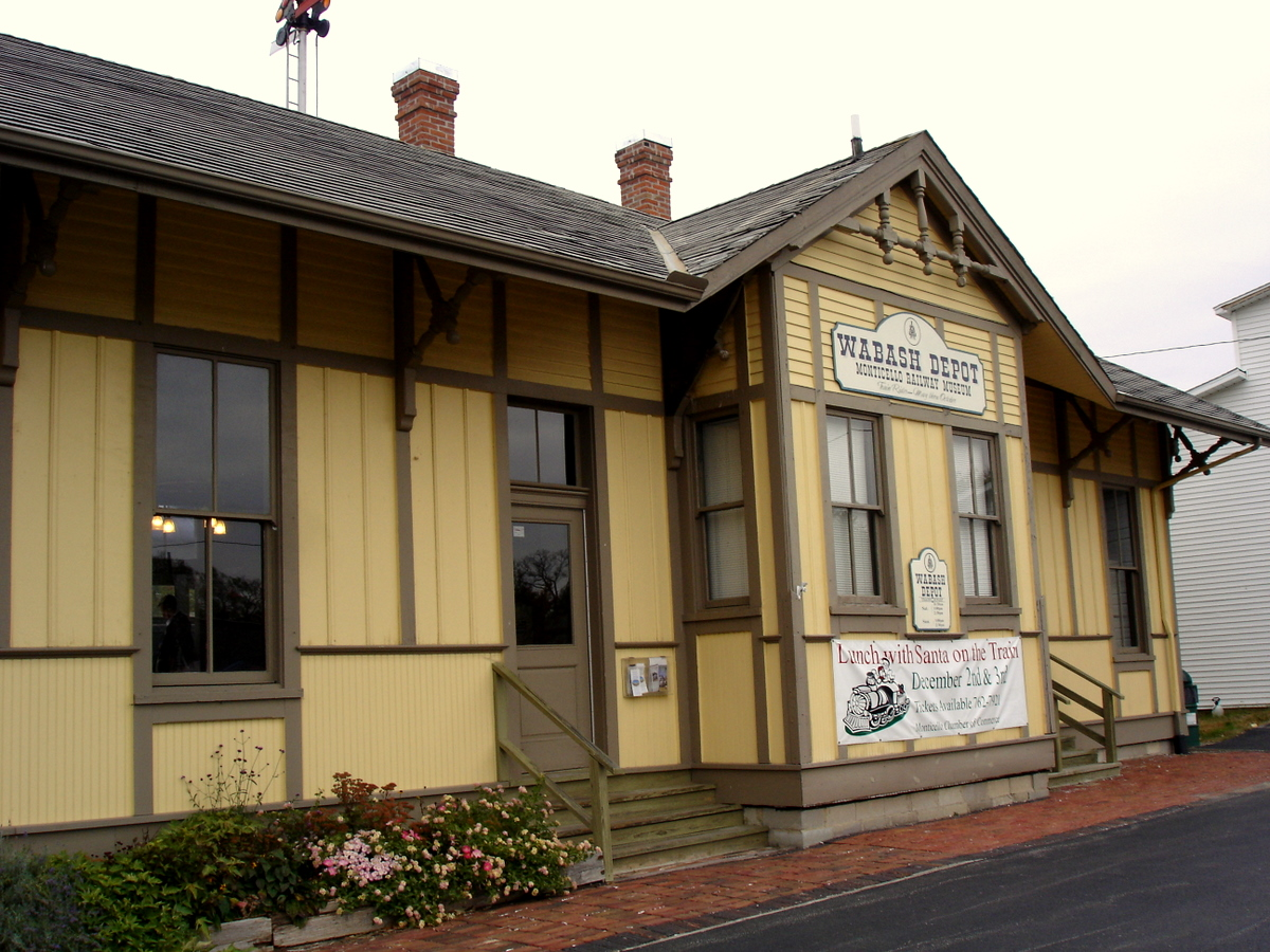 A trip to the Monticello Railway Museum